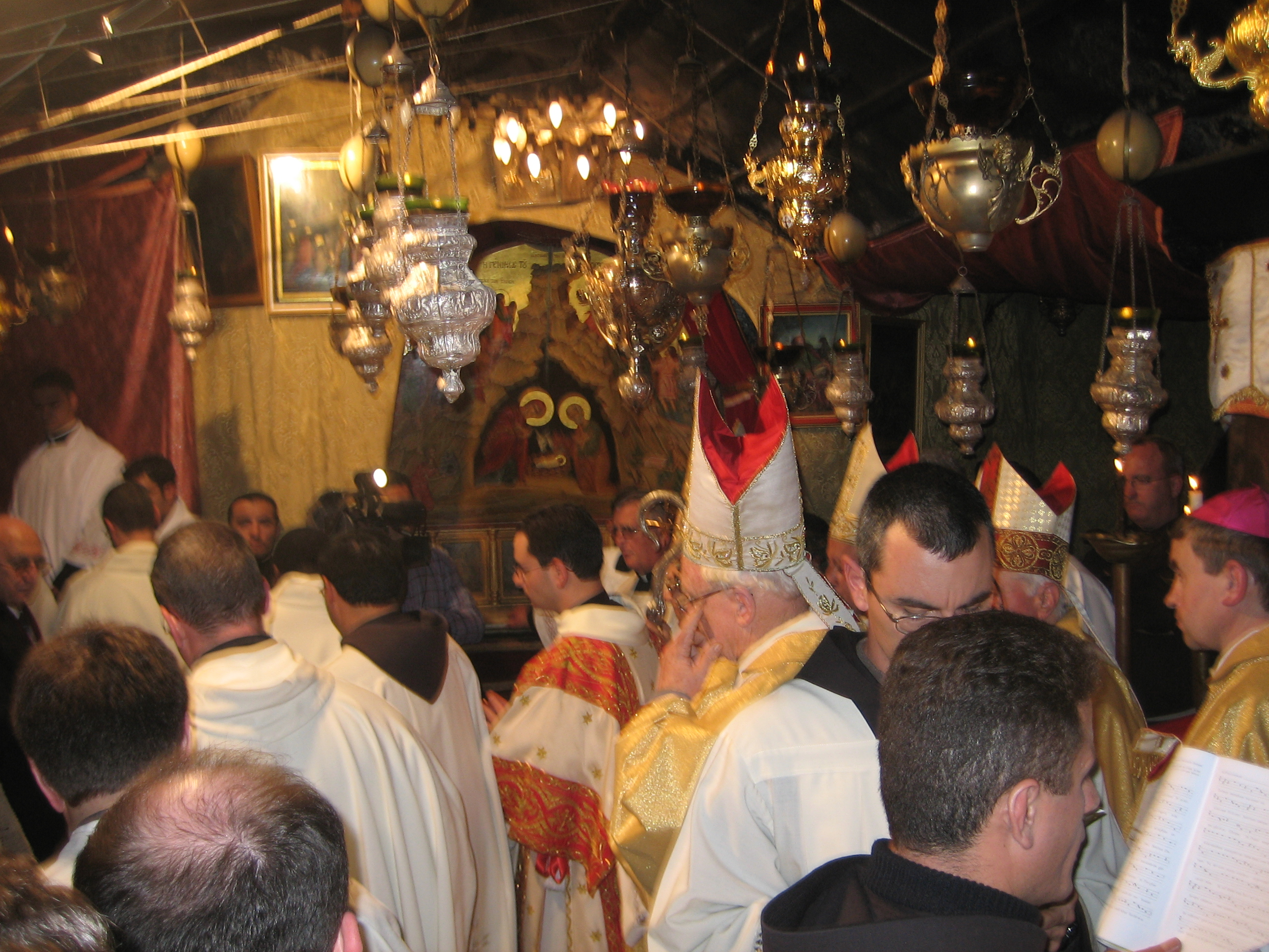 The end of the Roman Catholic Midnight Mass on Christmas at the place of Jesus' birth in Bethlehem (2006) / Završetak katoličke Polnoćke na Božić, u špilji Isusova rođenja u Betlehemu (2006.).